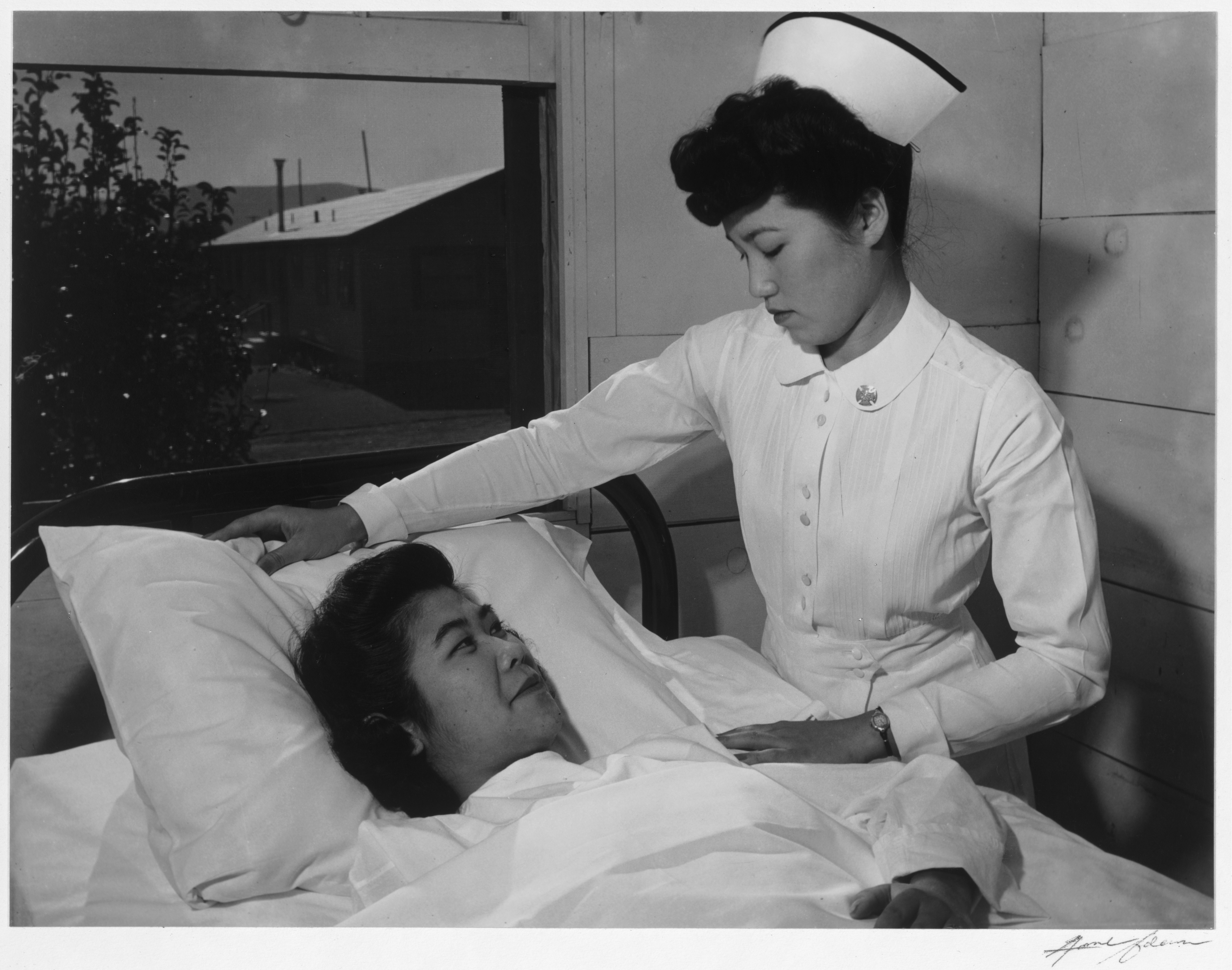 Nurse Aiko Hamaguchi and patient Toyoko Ioki, Manzanar Relocation Center, California